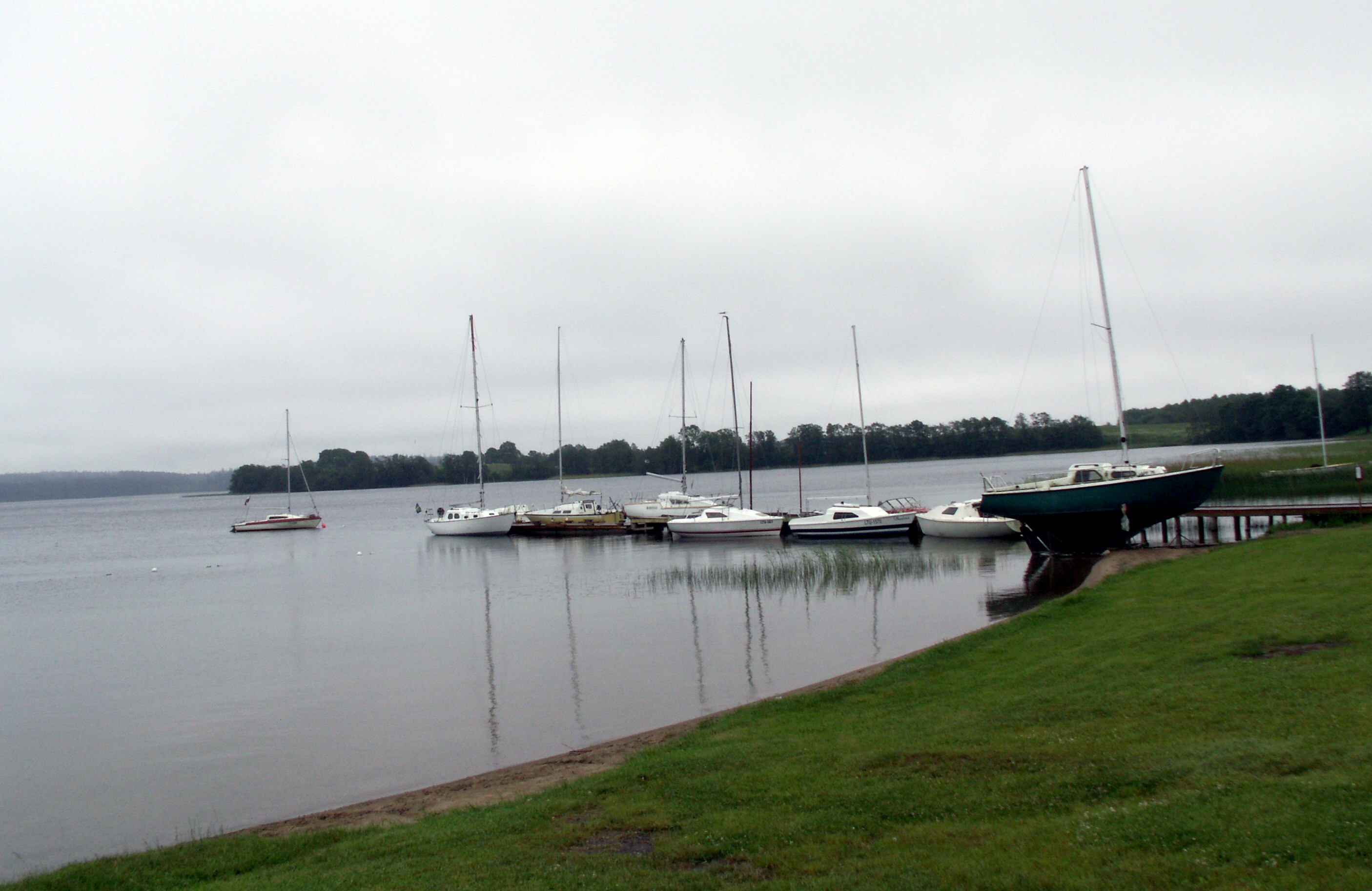 Plateliai Lake, Lithuania